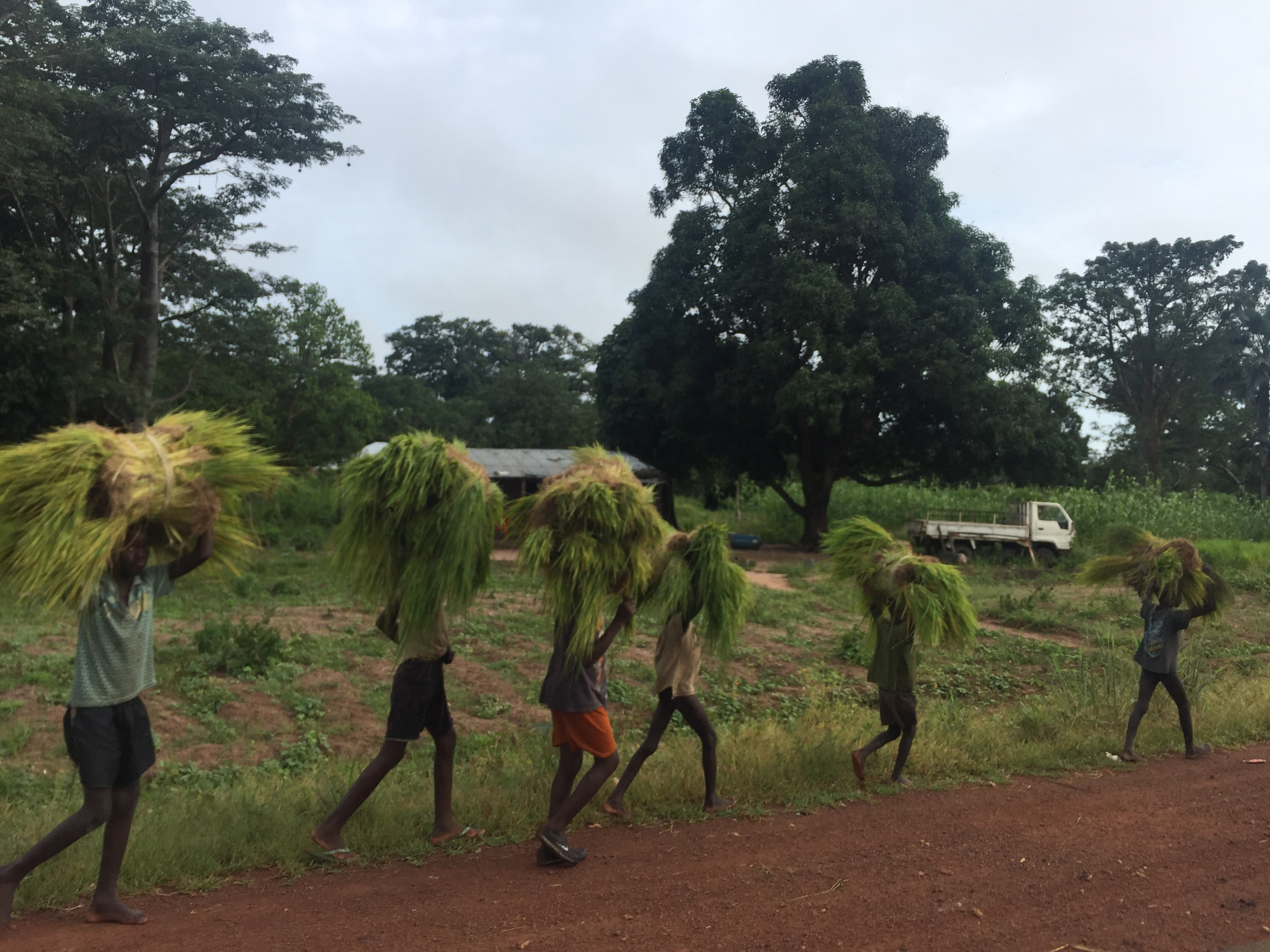 Boys working with rice harvest in Guinea-Bissau (2107) This is an image of "African people at work" from Guinea-Bissau